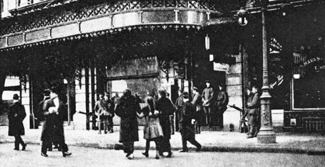 Armed soldiers outside shops